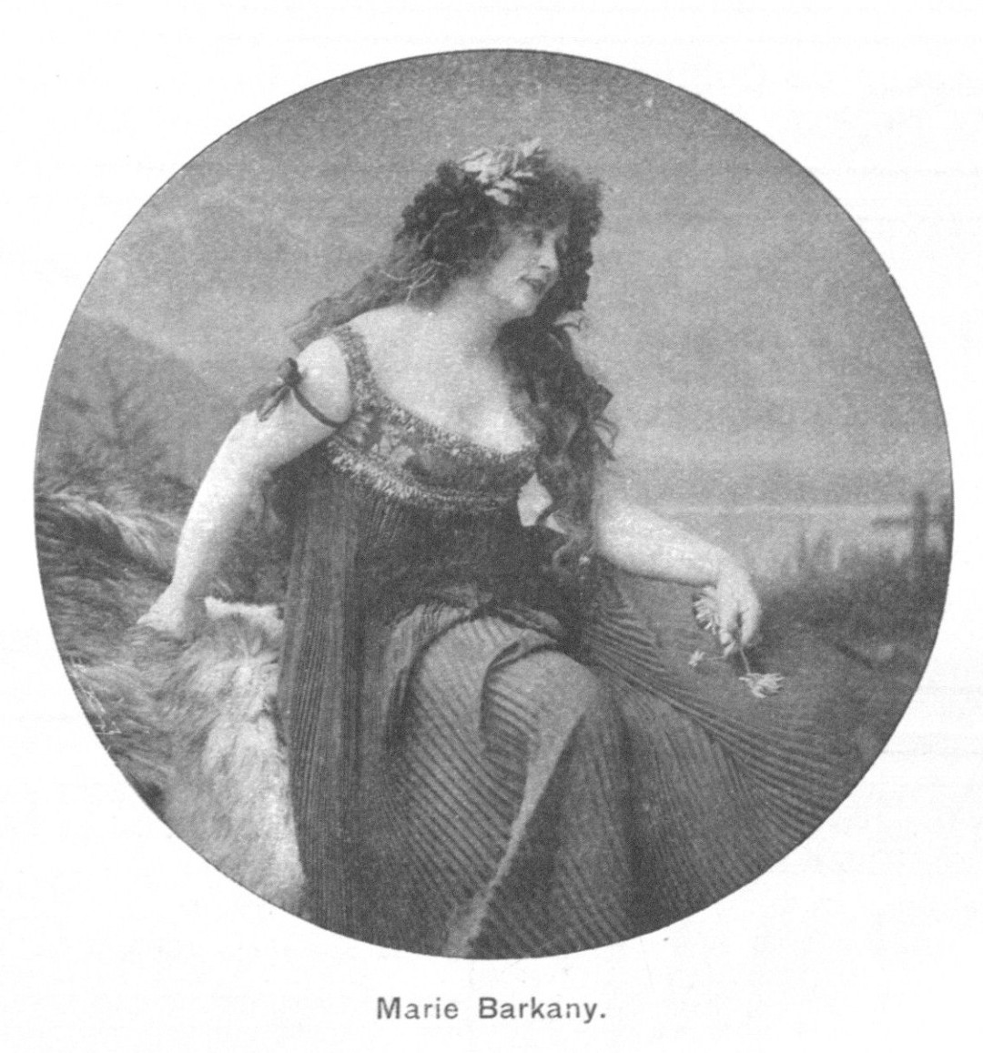 Portrait of Marie Barkany (1862-1928), Austrian actress.